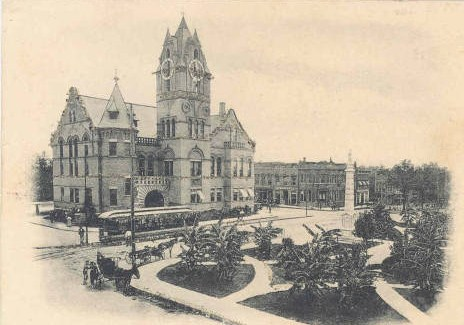 Anderson (South Carollina) Courthouse Square -cropped This work is in the public domain in its country of origin and other countries and areas where the copyright term is the author's life plus 100 years or less. You must also include a United States public domain tag to indicate why this work is in the public domain in the United States. This file has been identified as being free of known restrictions under copyright law, including all related and neighboring rights.